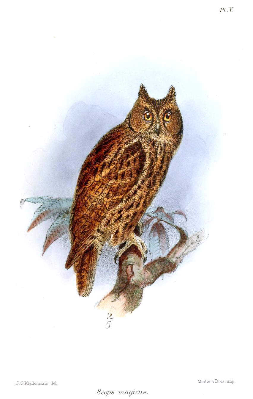 Scops magicus = Otus magicus, Moluccan Scops Owl